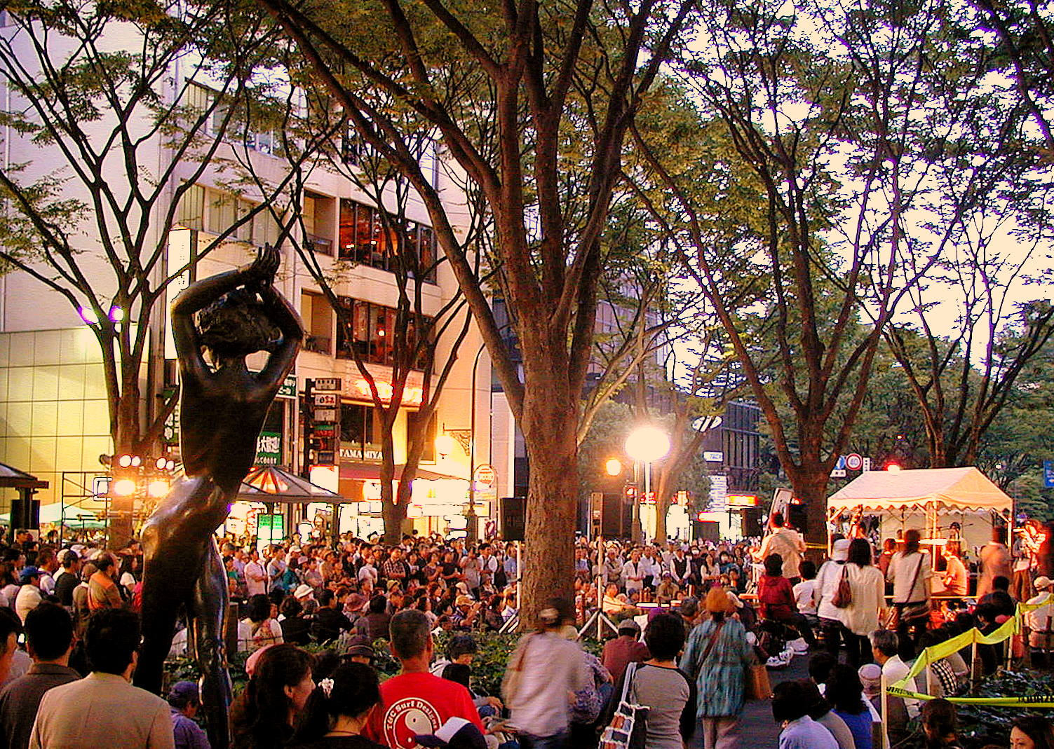 "Jozenji Streetjazz Festival in SENDAI" on Jozenji-dori ave.